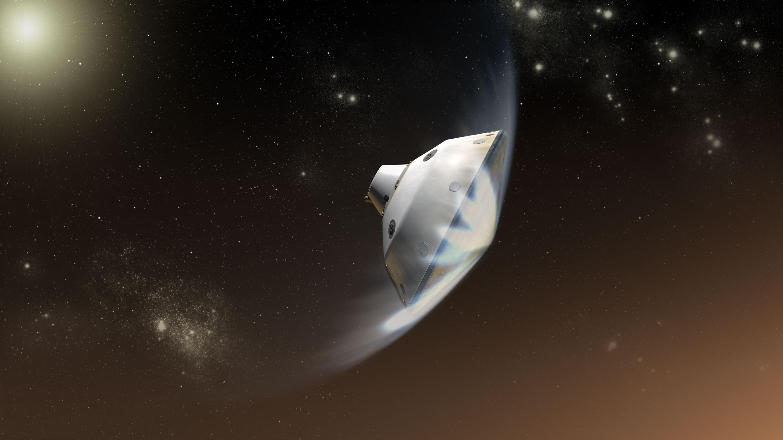 Deceleration of Mars Science Laboratory in Martian Atmosphere, Artist's Concept This artist's concept depicts the interaction of NASA's Mars Science Laboratory spacecraft with the upper atmosphere of Mars during the entry, descent and landing of the Curiosity rover onto the Martian surface. The mission's entry, descent, and landing (EDL) phase begins when the spacecraft reaches the top of Martian atmosphere, about 81 miles (131 kilometers) above the surface of the Gale crater landing area, and ends with the rover safe and sound on the surface of Mars. During the approximately seven minutes of EDL, the spacecraft decelerates from a velocity of about 13,200 miles per hour (5,900 meters per second) at the top of the atmosphere, to stationary on the surface. Entry, descent, and landing for the Mars Science Laboratory mission will include a combination of technologies inherited from past NASA Mars missions, as well as exciting new technologies. Instead of the familiar airbag landing of the past Mars missions, Mars Science Laboratory will use a guided entry and a sky crane touchdown system to land the hyper-capable, massive rover. In the depicted scene, the friction with the Martian atmosphere is slowing the spacecraft's descent and heating its heat shield. The rover (Curiosity) and descent stage of the spacecraft are inside the aeroshell consisting of the backshell and heat shield. This friction with the atmosphere before the opening of the spacecraft's parachute will accomplish more than nine-tenths of the deceleration of the entry, descent and landing phase.